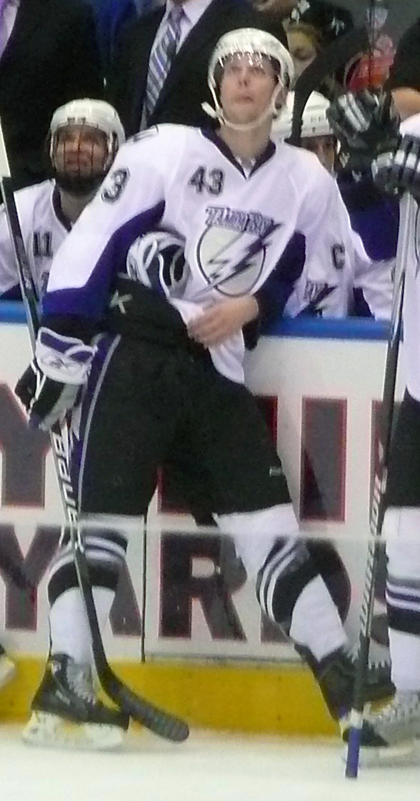 James Wright of the Tampa Bay Lightning watches a contested goal replay overhead during a game against the New York Islanders at Uniondale, NY on 12/21/2009.